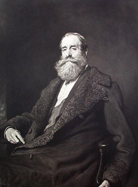 Summary An engraving by Gerald Robinson of a portrait of John Poyntz Spencer, 5th Earl Spencer by Frank Holl, painted about 1888.